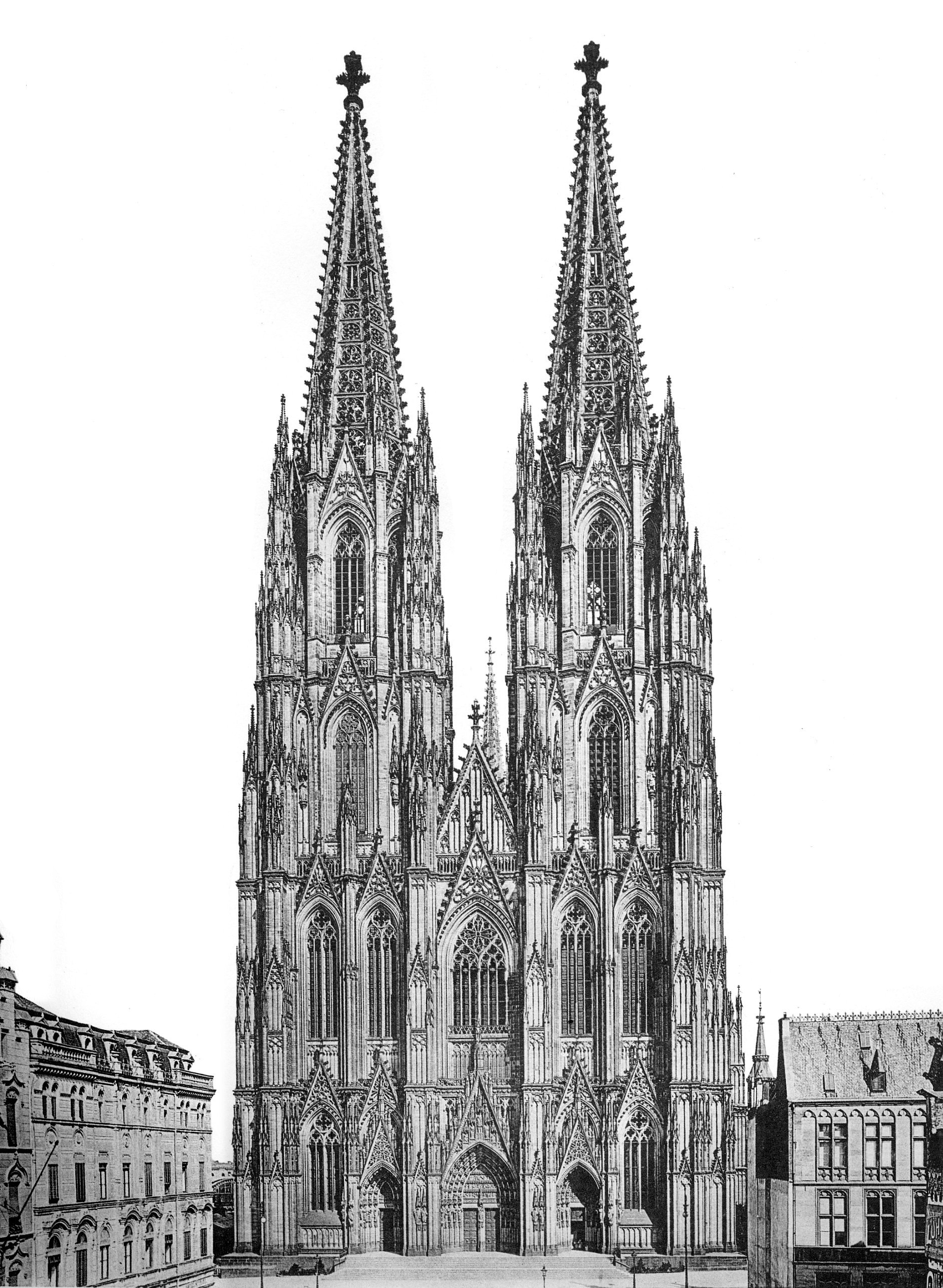 Cologne Cathedral